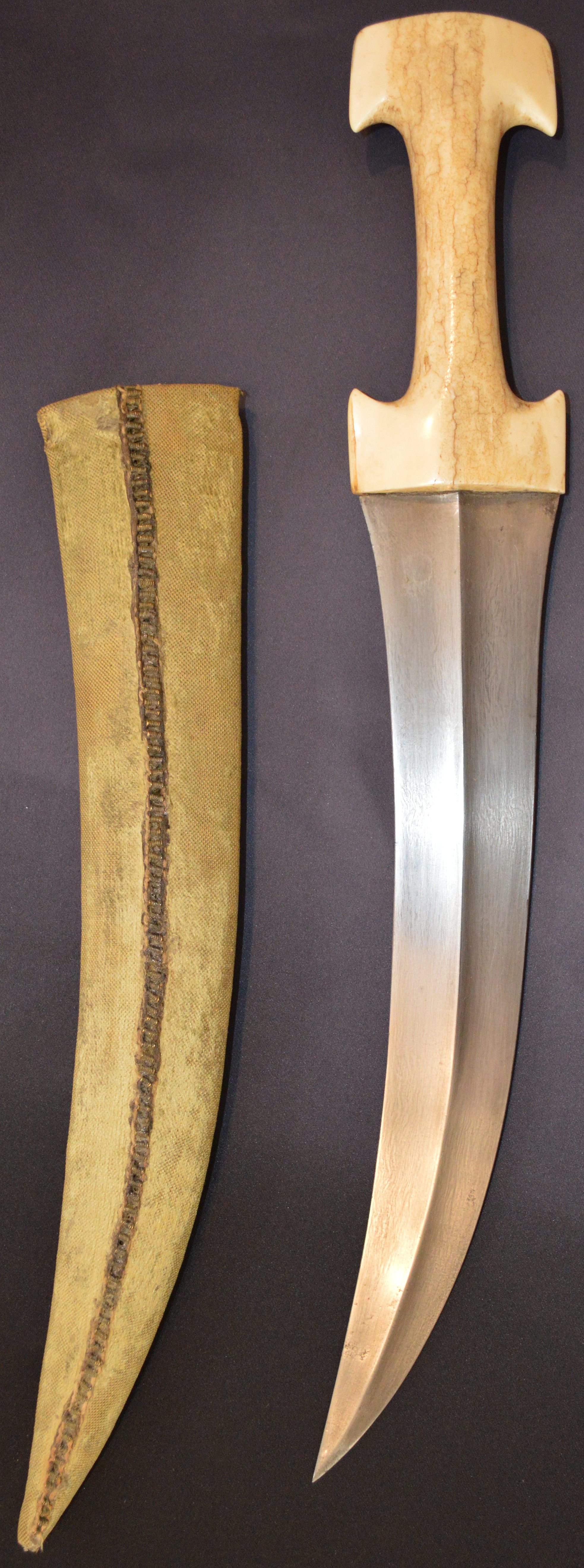 Ottoman jambiya, 19th century, sham damascus steel blade, massive I shaped handle cut entirely from a single piece of walrus ivory, wood scabbard covered with faded green velvet with spiral stitching, length 20 inches (in scabbard), blade 12 inches.